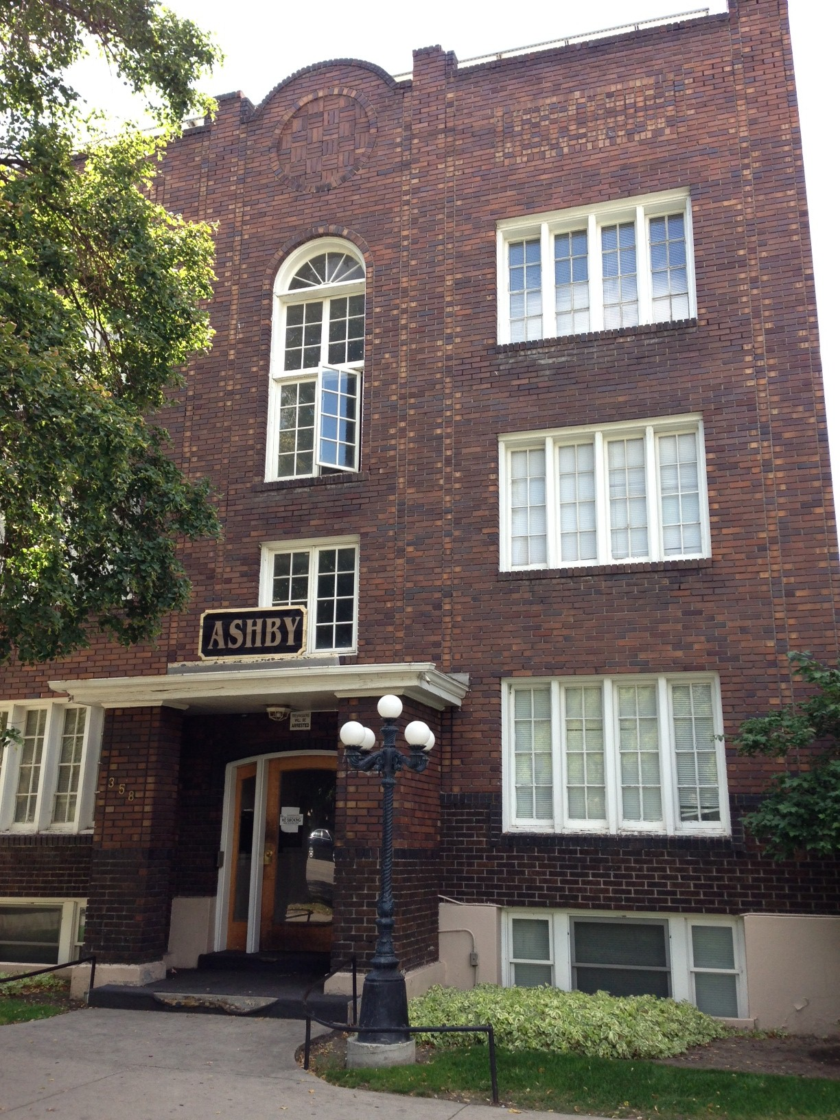 Ashby Apartments, 358 E. 100 South Central City